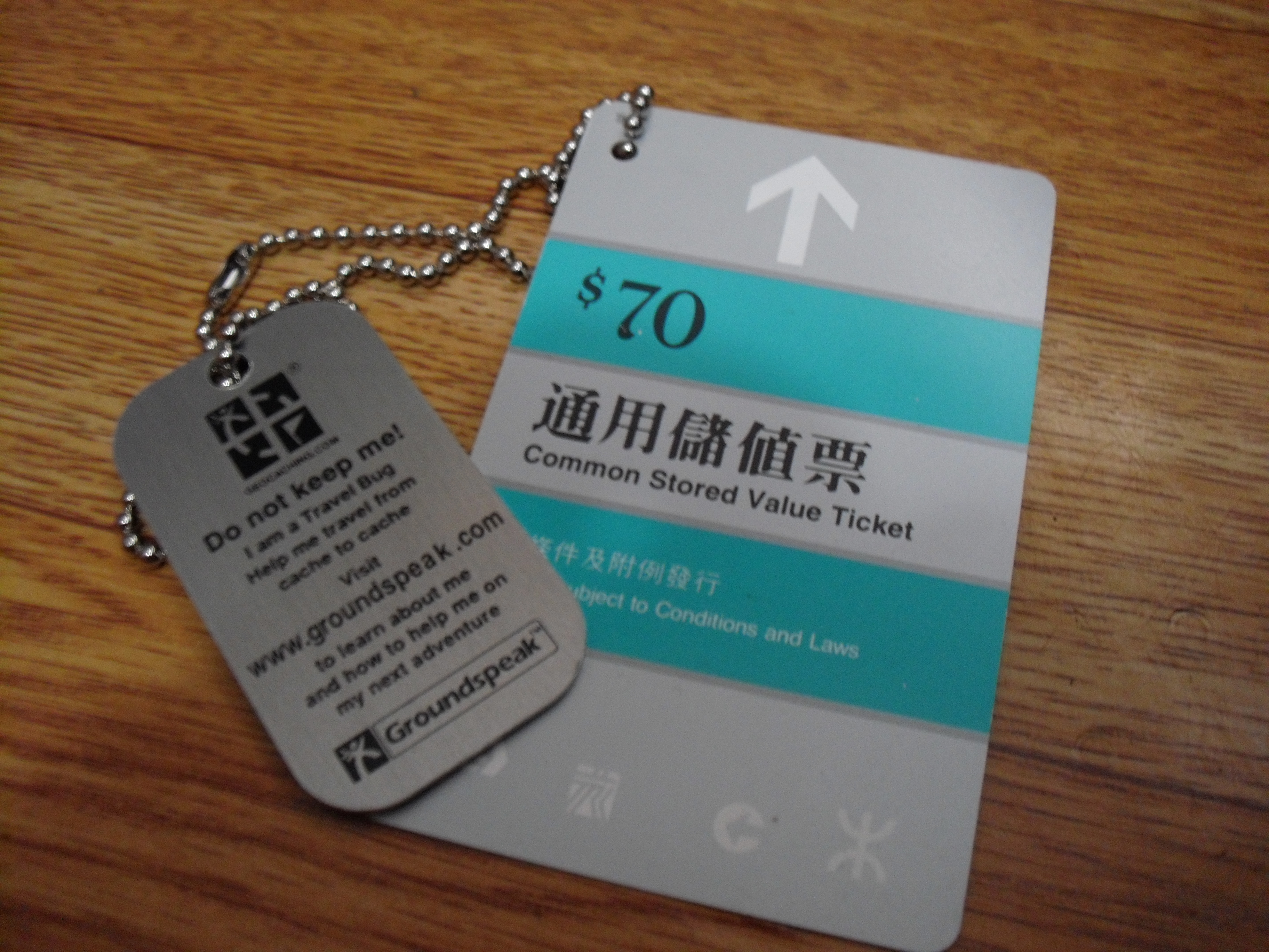 A Travel Bug tag of the newer type.